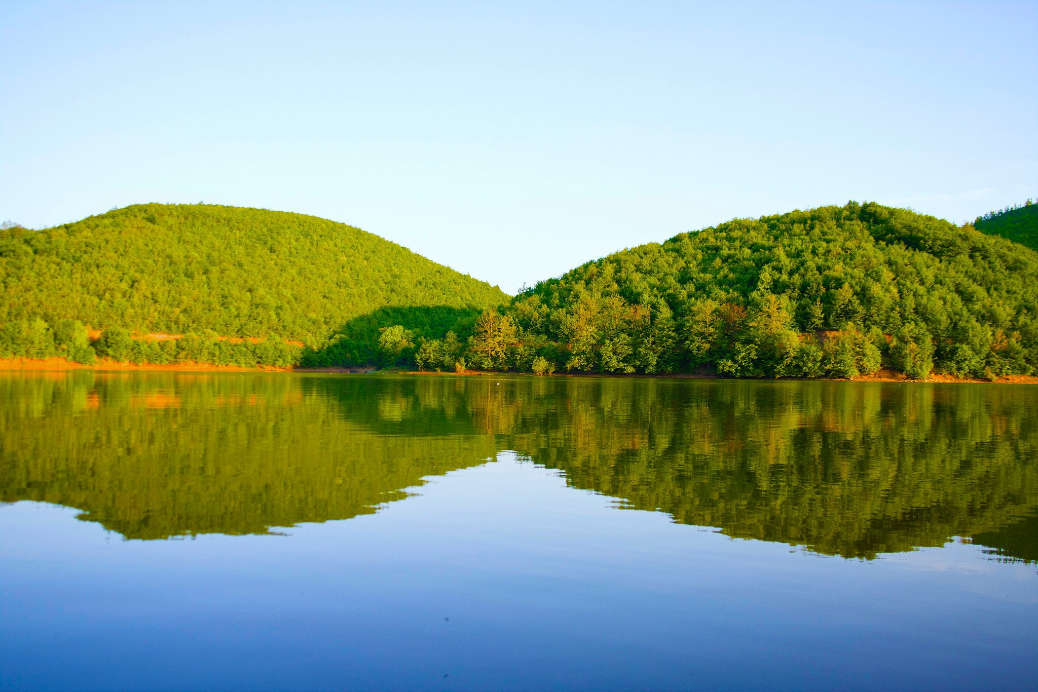 Liqeni i Batllavës